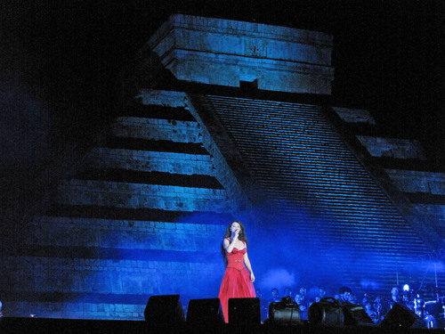 Sarah Brightman in ChichenItza